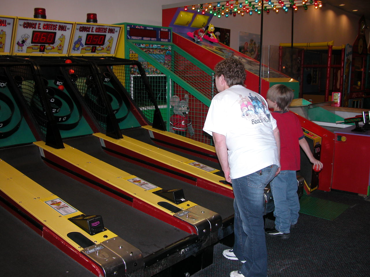 Chuck E. Cheese skeeball